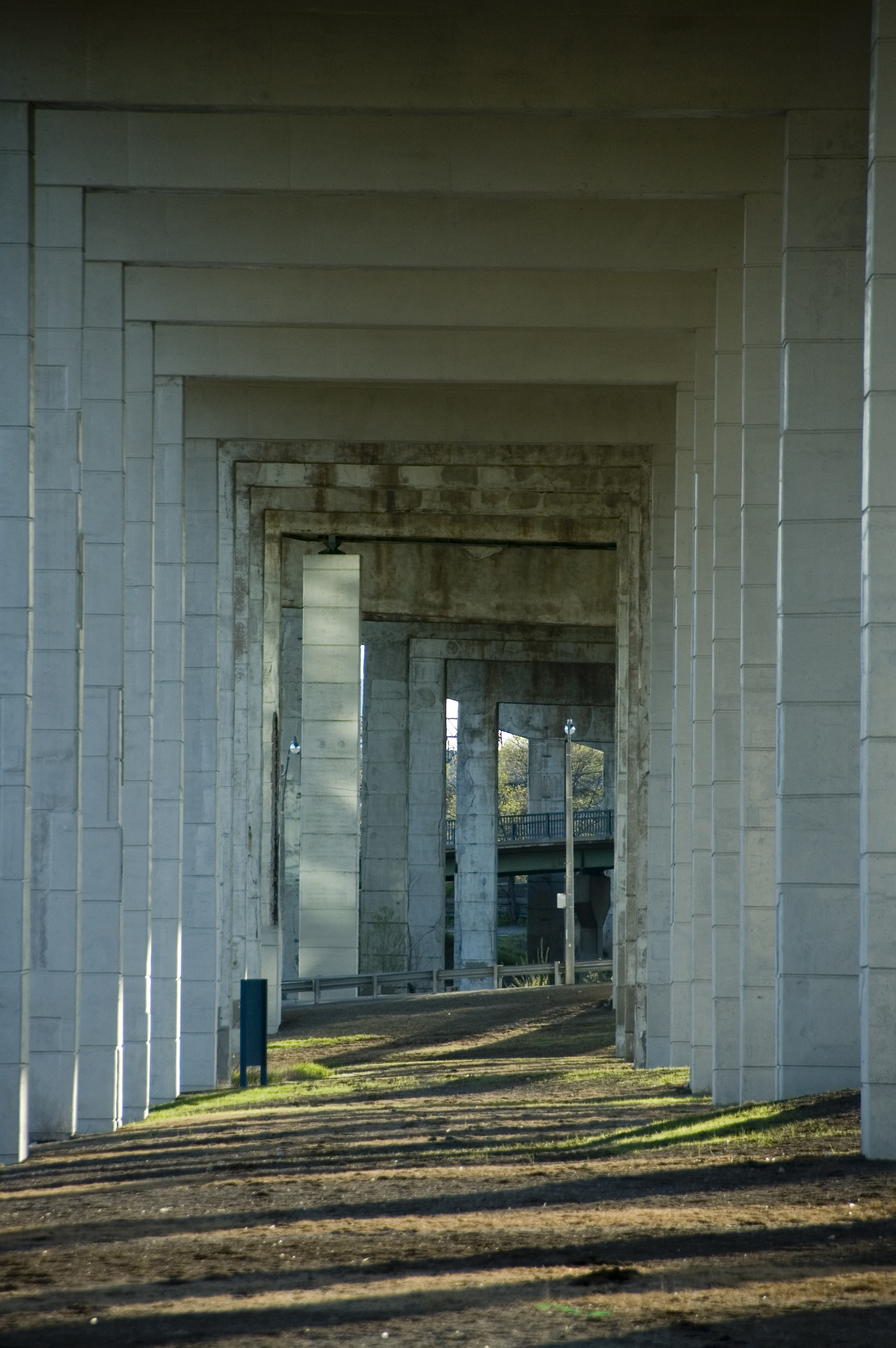 Gardiner Expressway, near Fort York 'Gardiner' On Black